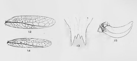 Modified from Hebard. 1922. Proc. Acad. Nat. Sci. Philad. 74:150, Fig. 12. Stictophaula bakeri new species. Male. Type. Singapore, British Straits Settlements. Lateral view of sinistral tegmen. (X 1%.) Fig. 13. Stictophaula quadridens new species. Male. Type. Singapore, British Straits Settlements. Ventral outline of apex of subgenital plate. (Same scale as figure 10.) Fig. 14. Stictophaula rnicra new species. Female. Type. Singapore, British Straits Settlements. Lateral view of sinistral tegmen. (X 1/4.) Fig. 15. Stictophaula micra new species. Female. Type. Singapore, British Straits Settlements. Lateral view of ovipositor and subgenital plate. (X4.)